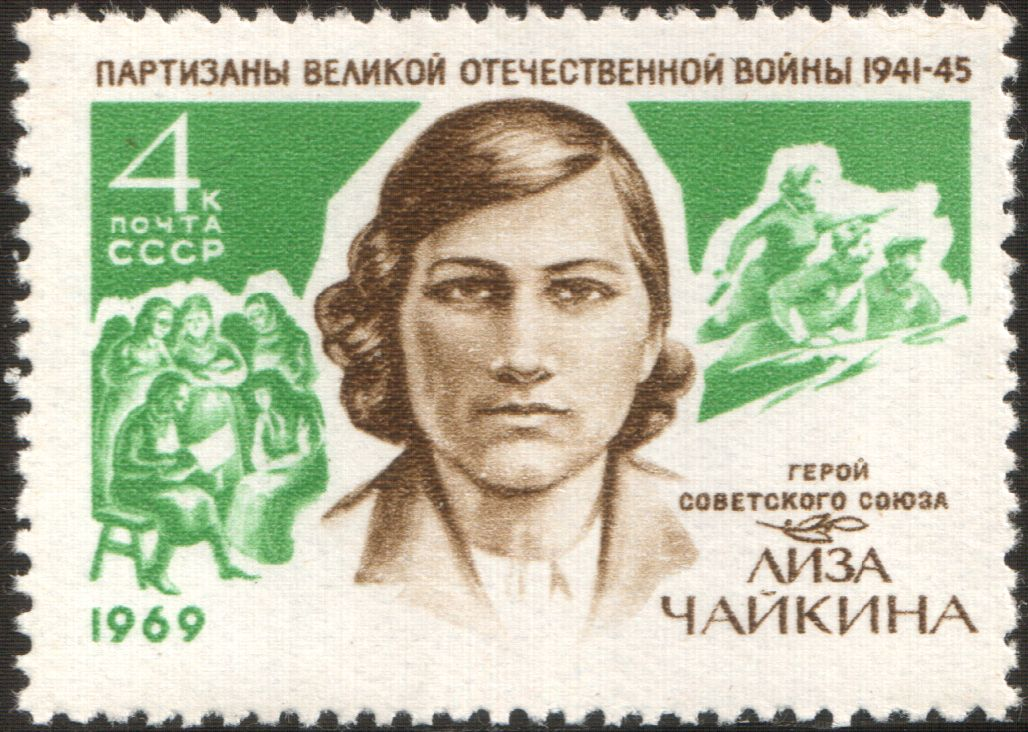 USSR stampː Komsomolets and Partisan Girl Lisa Chaikina. Seriesː Partisans of Great Patriotic War 1941-1945 - Heroes of the Soviet Union